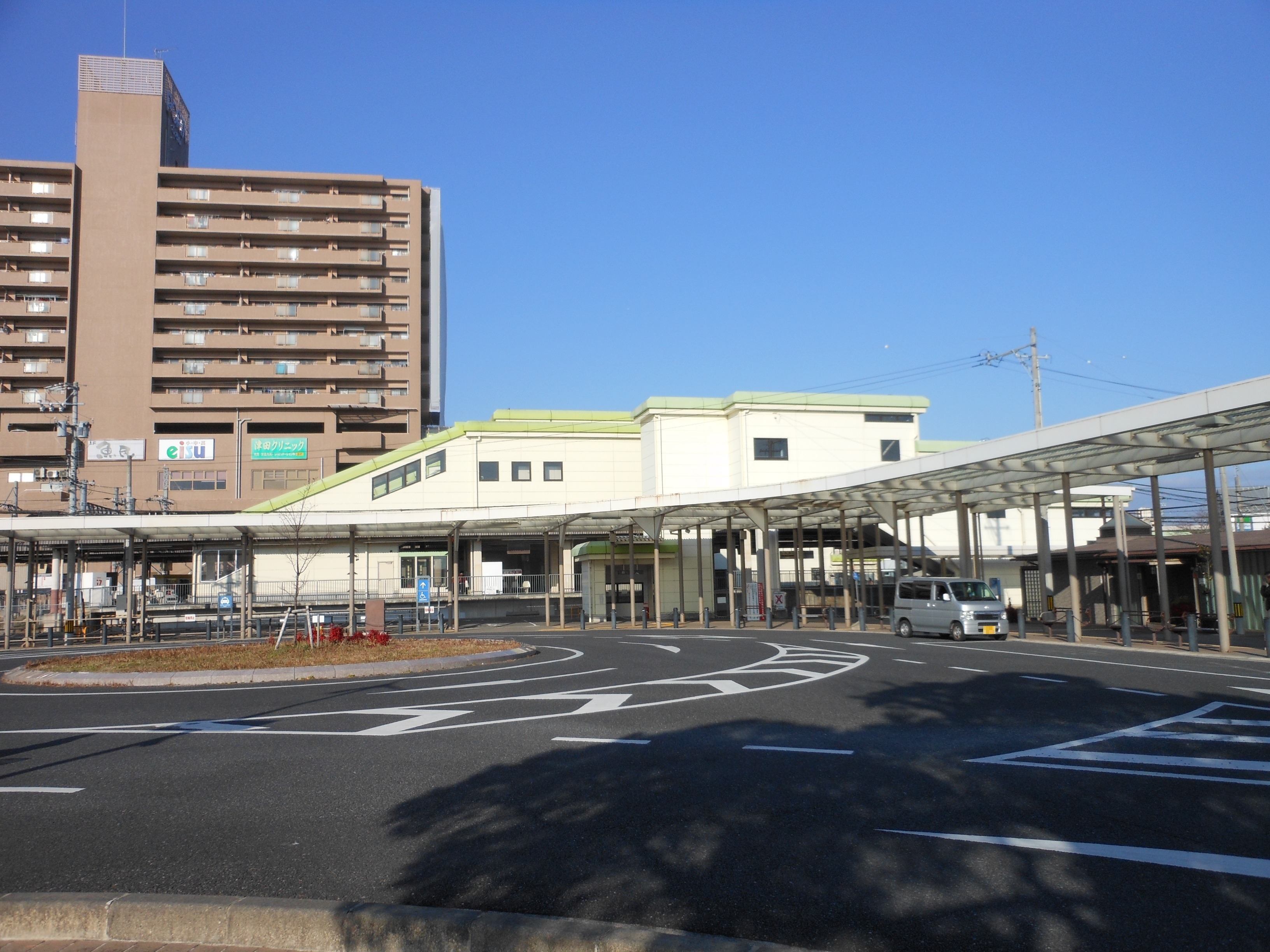 This is the east exit of Hisai station in Tsu, Mie, Japan.